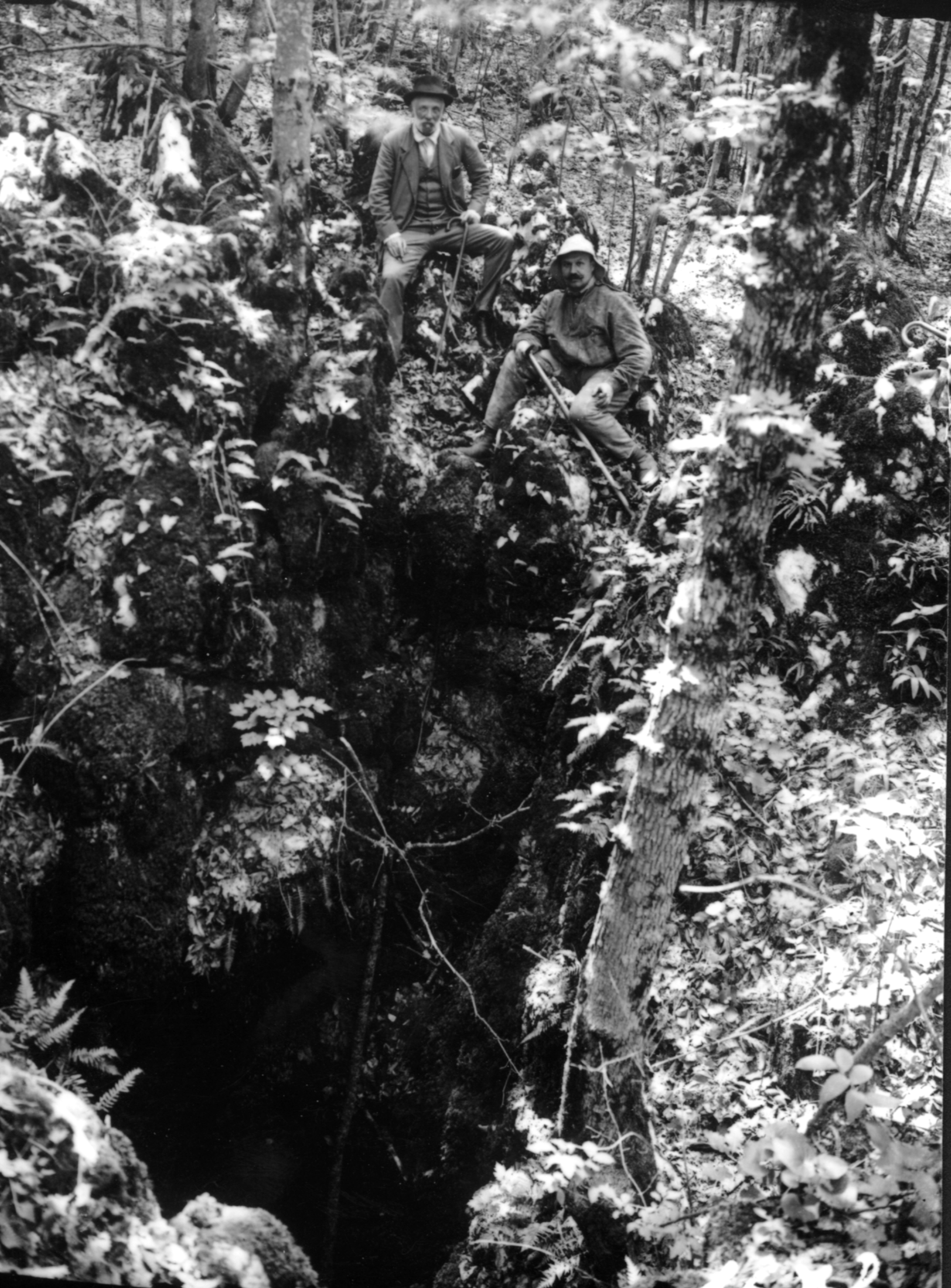 Entrance of Vecsembükk Pothole, Aggtelek Karst, Bódvaszilas.